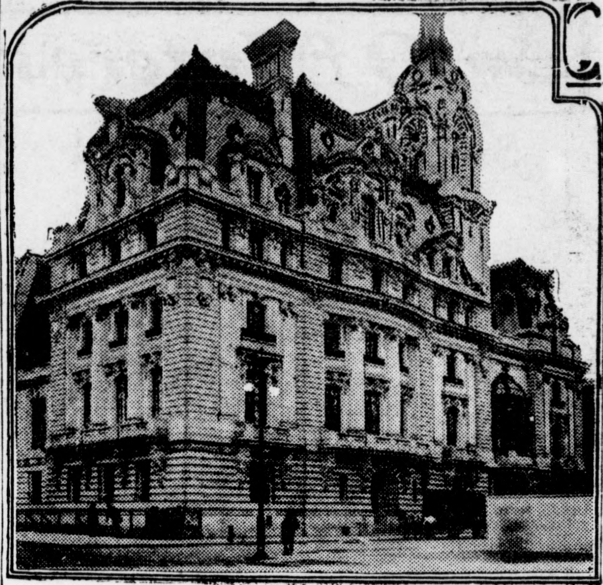 the Manhattan mansion of Senator William A. Clark, built 1897, completed 1907, demolished 1925.